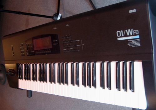 Korg O1w/FD - picture taken at Revolution Audio by Jason Johnston Taken here [1]